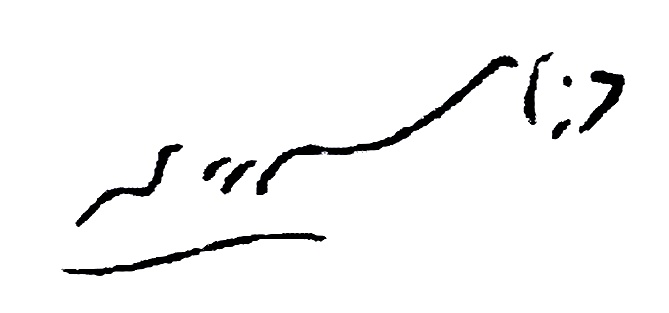 Signature of Hadhrat Mirza Masrur Ahmad